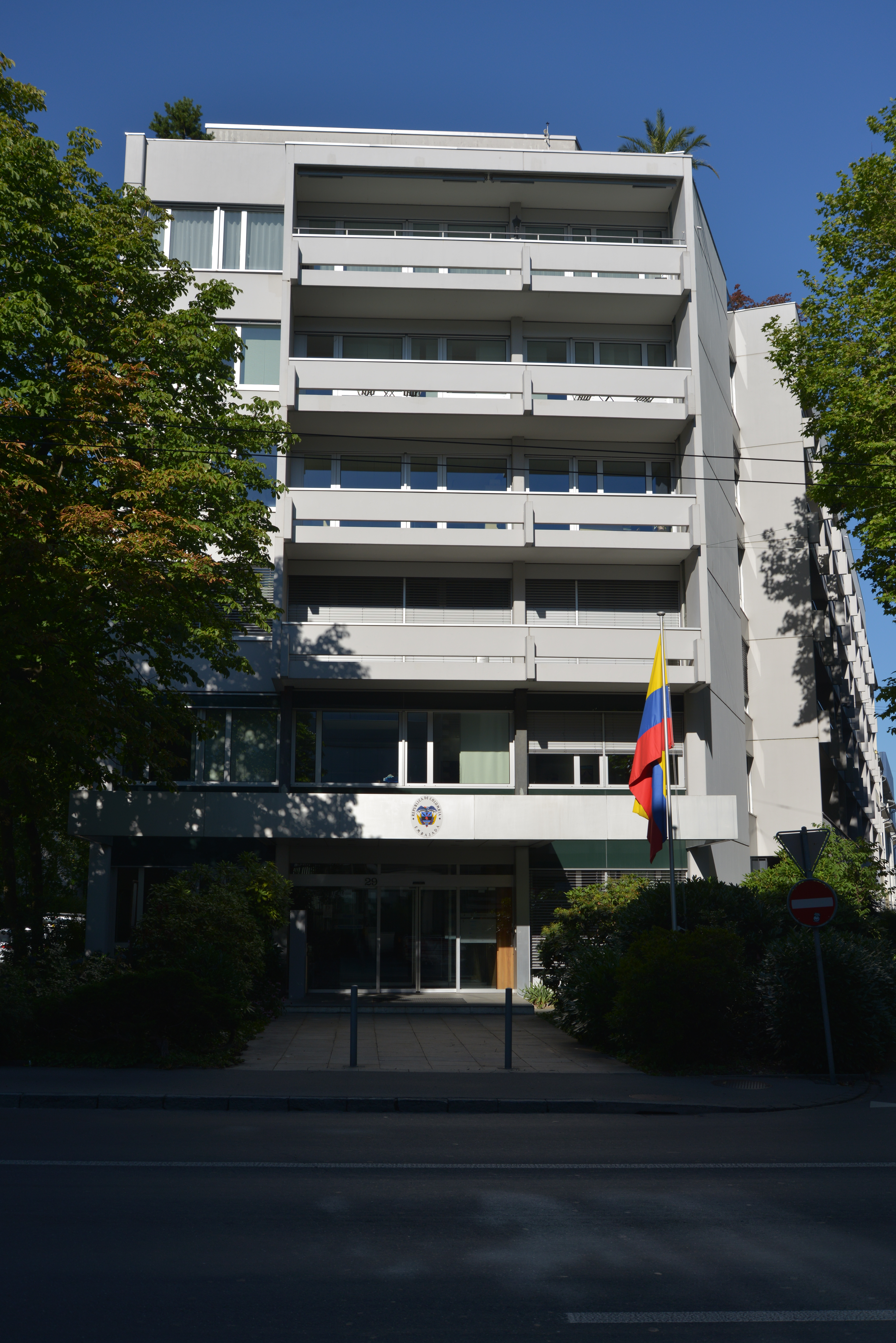 Embassy of Colombia, Bern, Zieglerstrasse 29